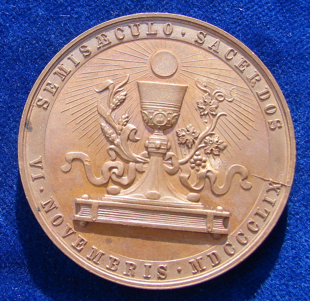 Cu- Medallion, d.= 45 mm. Scitovszky, Johann Baptist, Cardinal, 1785 Košická Belá, Kingdom of Hungary, (today Slovakia) - 1866 Esztergom, Hungary. Portrait l, surrounding: "JOHANNES BAPT: CARD: SCITOVSZKY PRINC: PRIMAS AEPPUS: STRIGON:"/ The sun above altar, surrounding: "SEMISÆCULO SACERDOS VI. NOVEMBRIS MDCCCIX". Wurzbach 8377. Medallist: C. R. (Carl Radnitzky), Sculptor, 1818 Wien - 1901 Vienna, Austria. Condition: EXTREMELY FINE